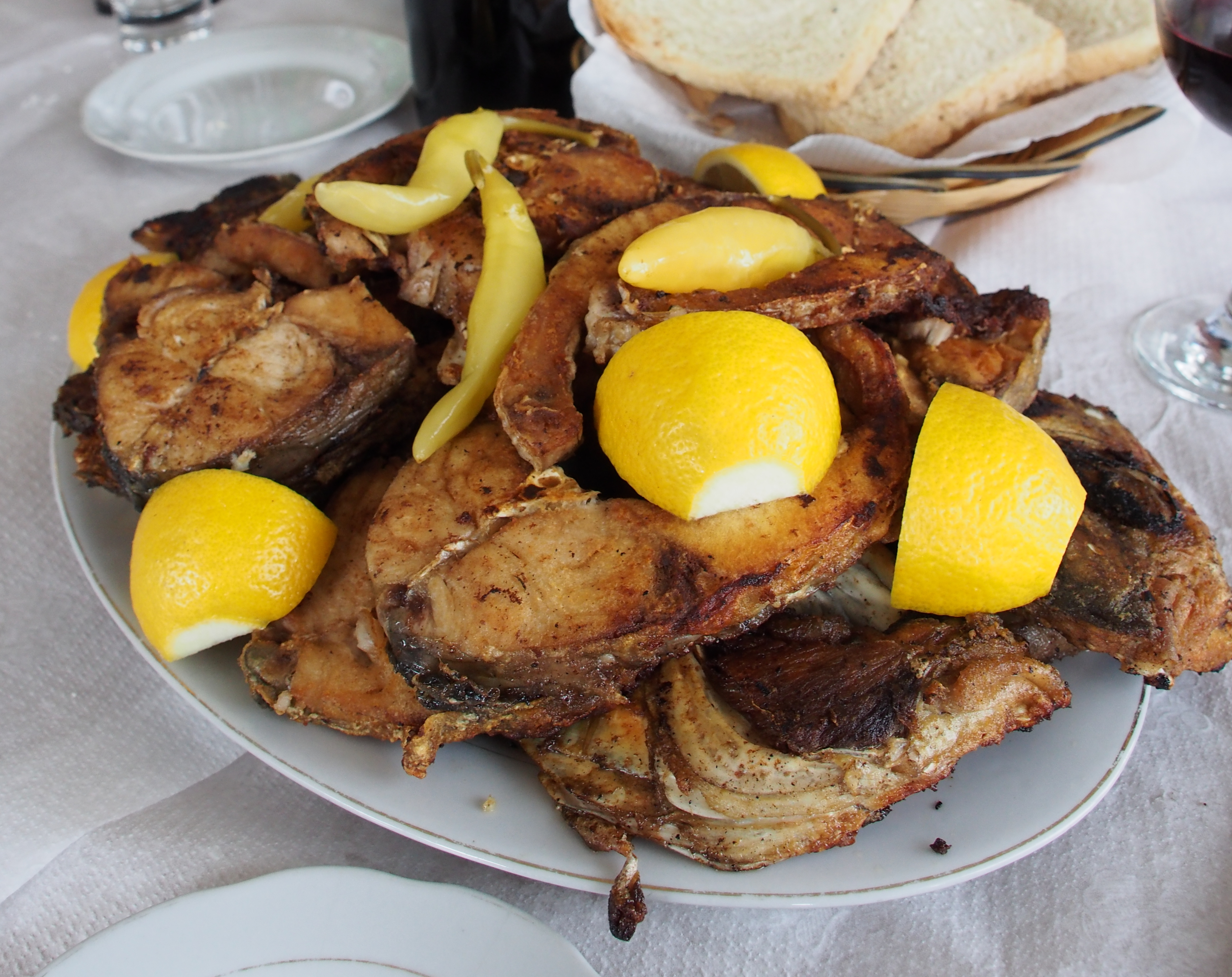 Lake Prespa carp, as served.Српски (ћирилица): Преспански шаран.